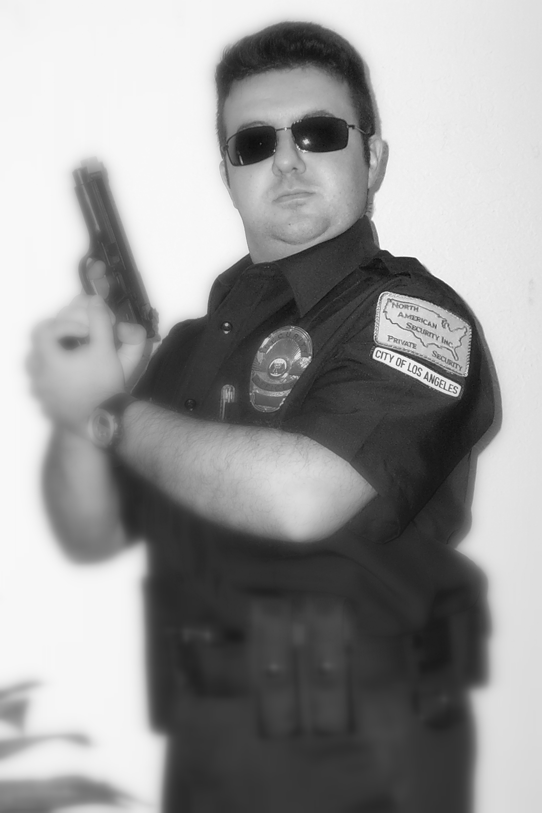 Security Guard of